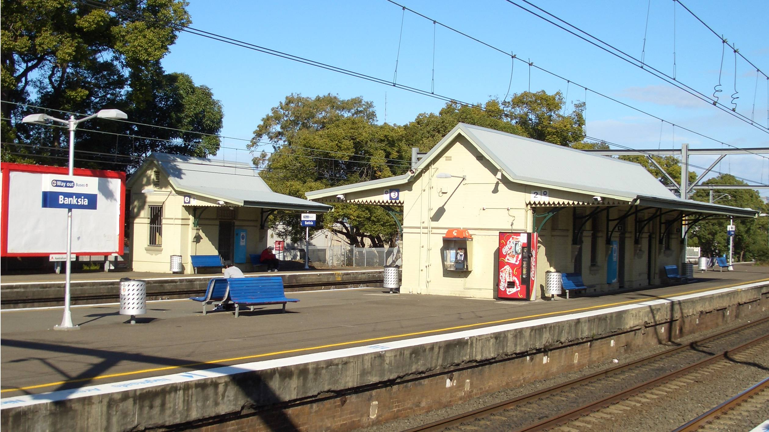 Banksia railway station, Sydney